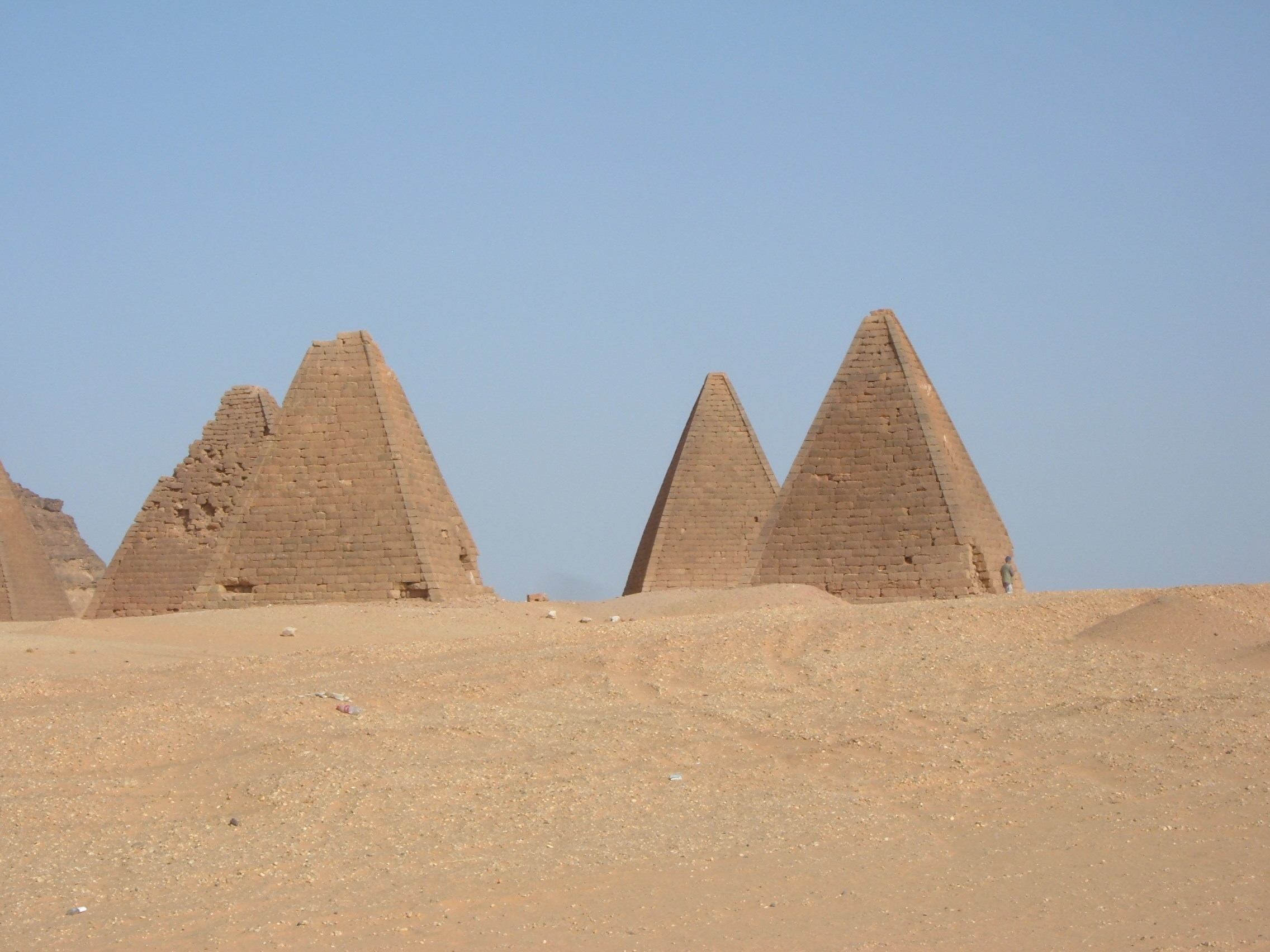 C.I.S.S. humanitarian tour to Sudan. This photo is part of a reportage made in Sudan for Wikinews